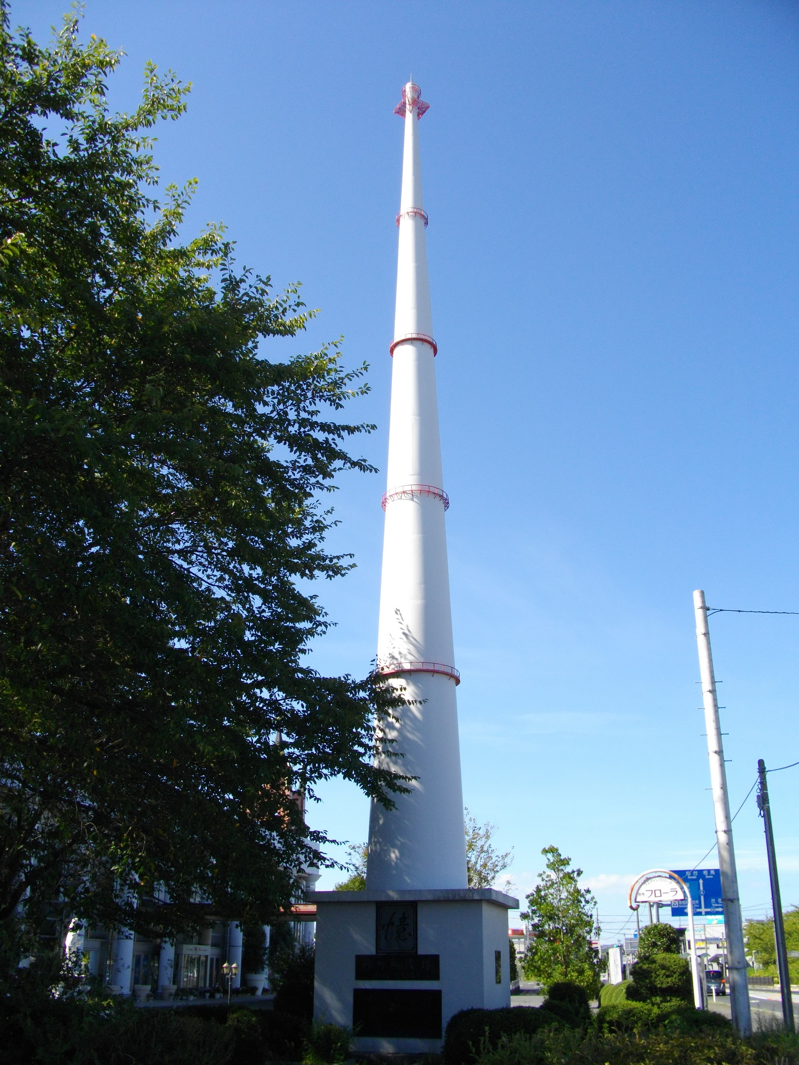 Oku Haramachi Memorial Radio Tower (Location:Fukushima-pref.JAPAN)